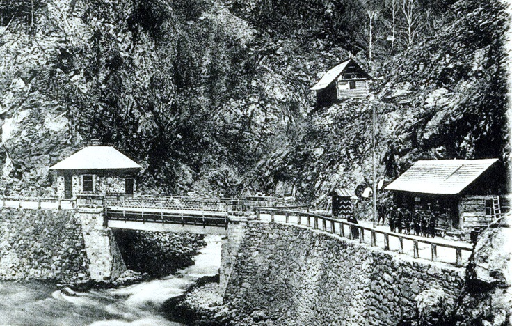 Border checkpoint between Romania and Transylvania on the Jiu gorge